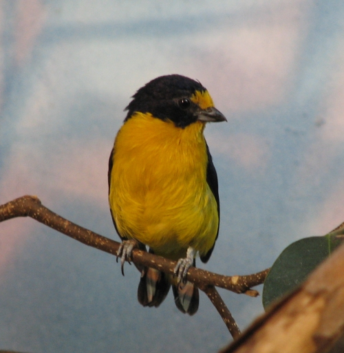 Violaceous Euphonia